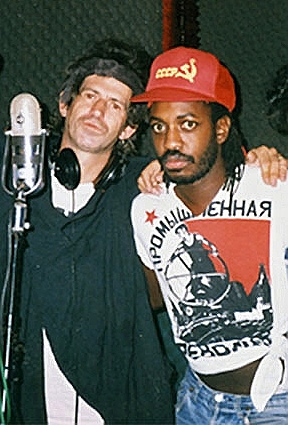 Musicians Keith Richards (left) and Steve Jordan during the recording of Richards' solo album "Talk is cheap", New York 1988. The original picture also shows musicians Sergey Voronov and Stas Namin (from the Russian band Flowers), who contributed to the album.